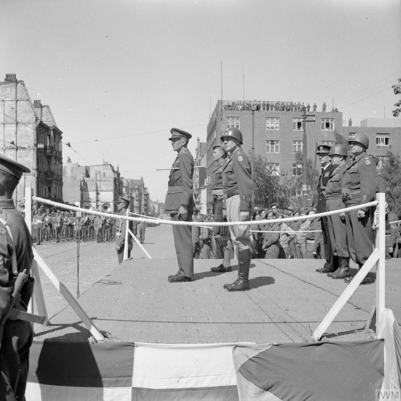 Germany Under Allied Occupation Lieutenant General B G Horrocks (Commanding 30th Corps), Major General Gordon Holmes Alexander MacMillan (Commanding 51st Highland Division) and Major General C H Gerhardt (Commanding US 29th Infantry Division) on the saluting base during the ceremony to mark the handover of Bremerhaven by British to American forces.